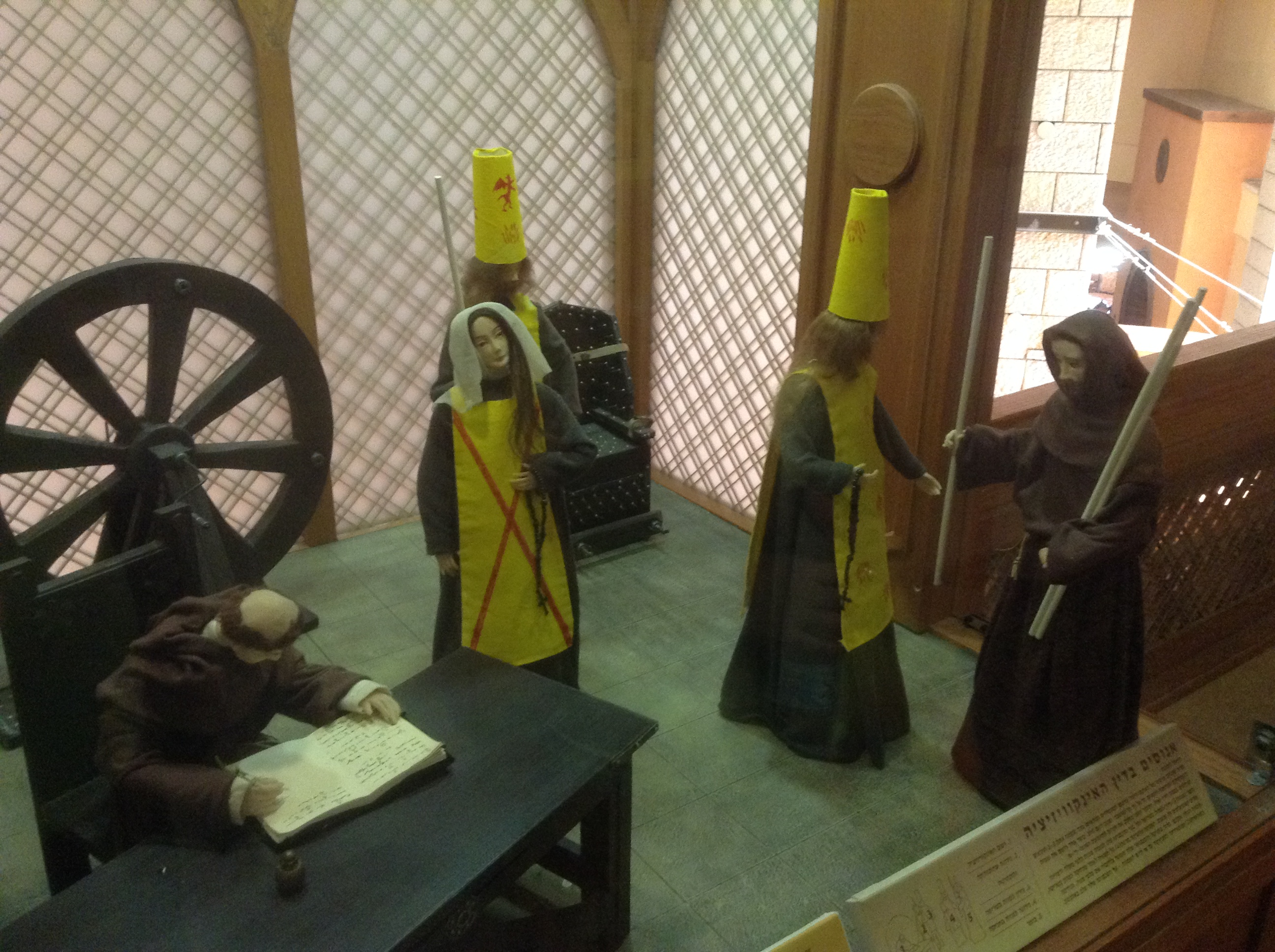 Inquisition and the Jews (The House of Dona Gracia Museum in Tiberias)